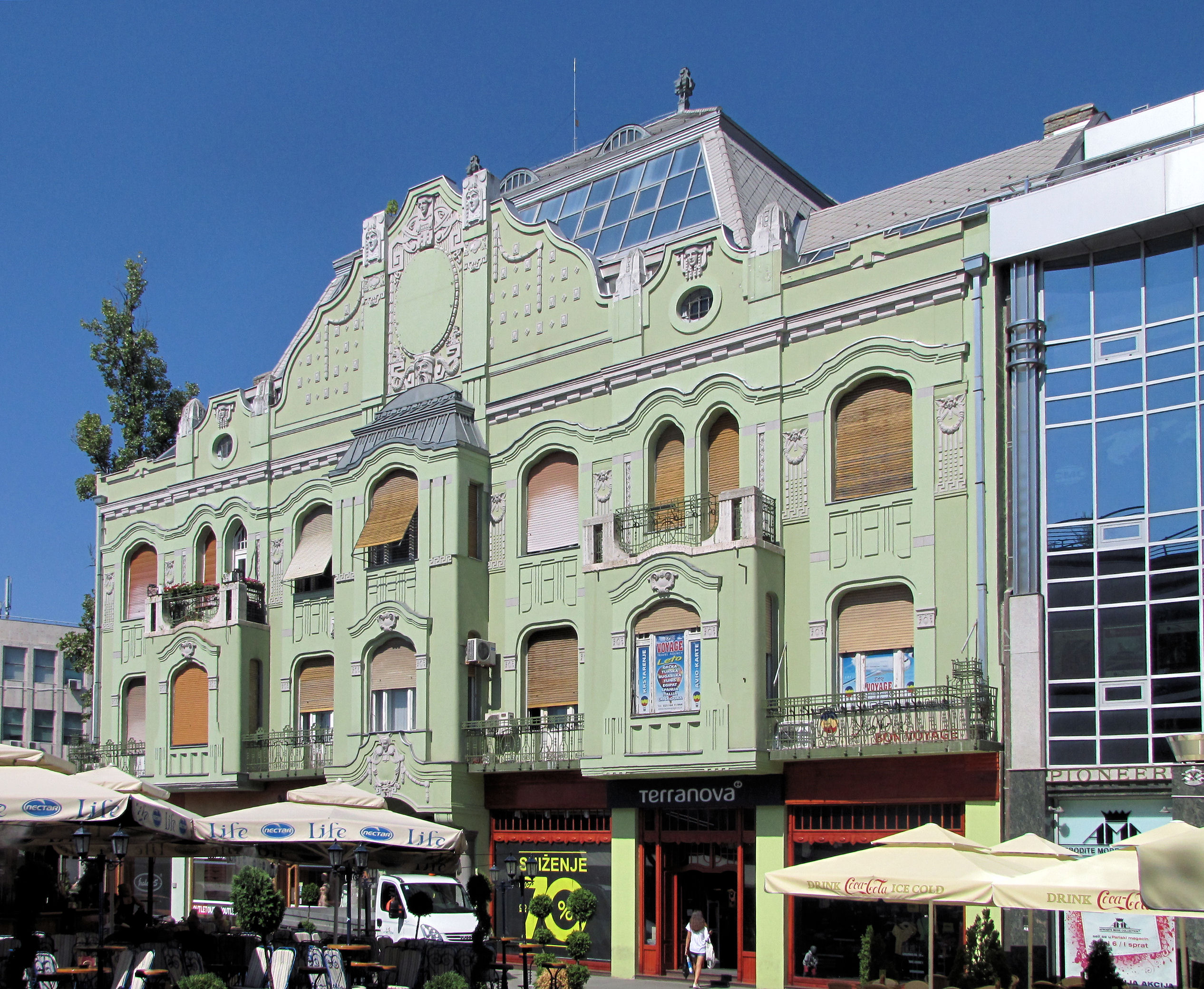 Apartment building, built by the plans of Lipót Baumhorn, Novi Sad, Serbia.